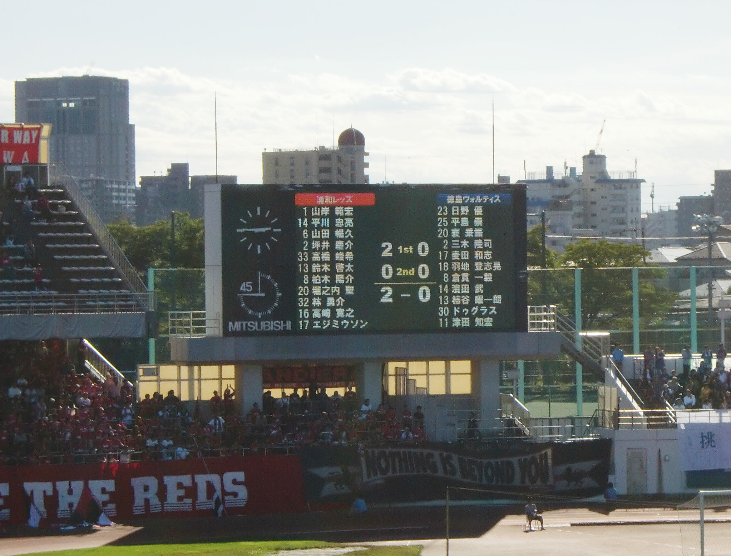 Saitama-shi Komaba stadium.